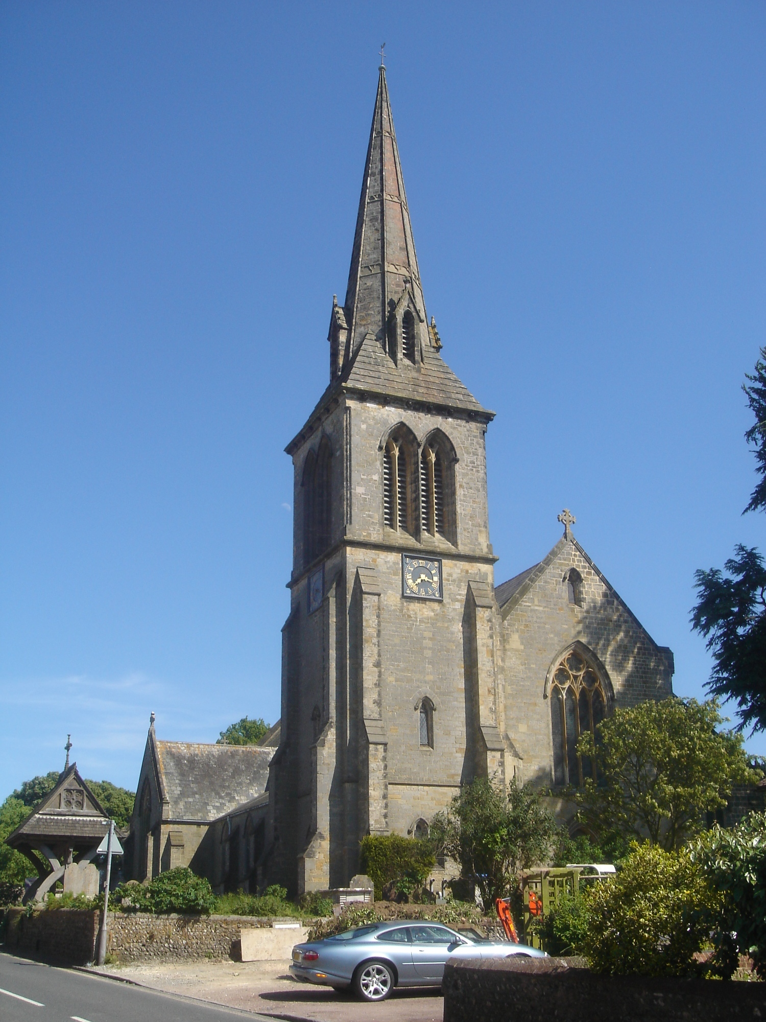 Holy Trinity Church, High Street, Hurstpierpoint, District of Mid Sussex, West Sussex, England. Hurstpierpoint's Anglican parish church was built in 1843–45 by Charles Barry. listed at Grade II* by English Heritage (IoE Code 302614)